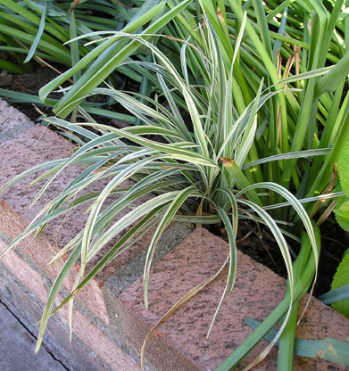 Liriope spicata (creeping lilyturf). A young variegated Liriope.